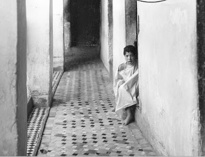 Maristan of Sidi Frej in Fez, Morocco.